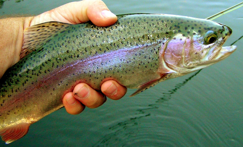 Adult rainbow trout. Photo by Mike Anderson